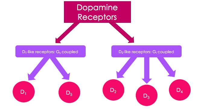 Depicts the organization of the dopamine receptors